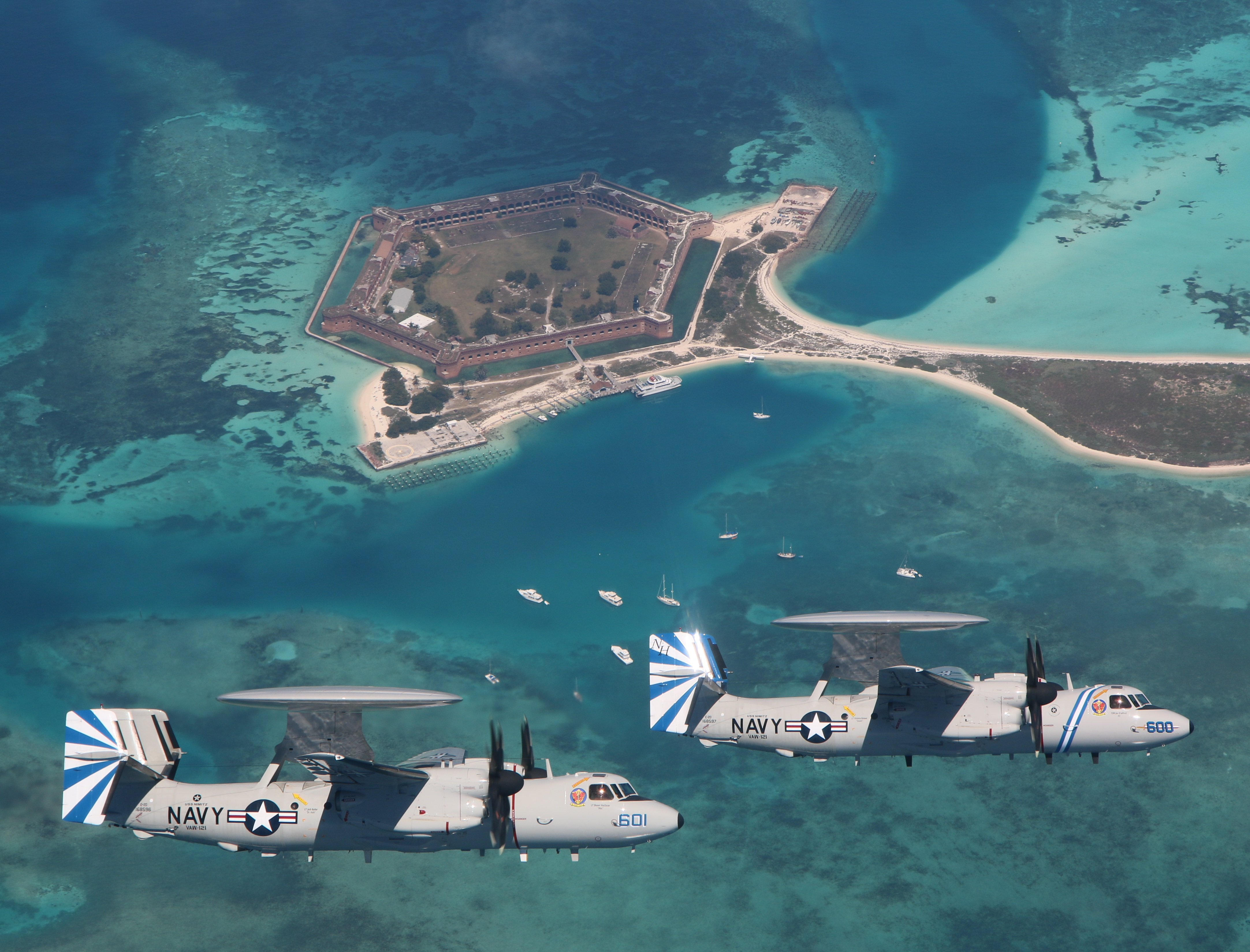 Two E-2D Hawkeyes from VAW-121 "Bluetails" fly in a two plane formation over Fort Jefferson, located in the Lower Florida Keys.